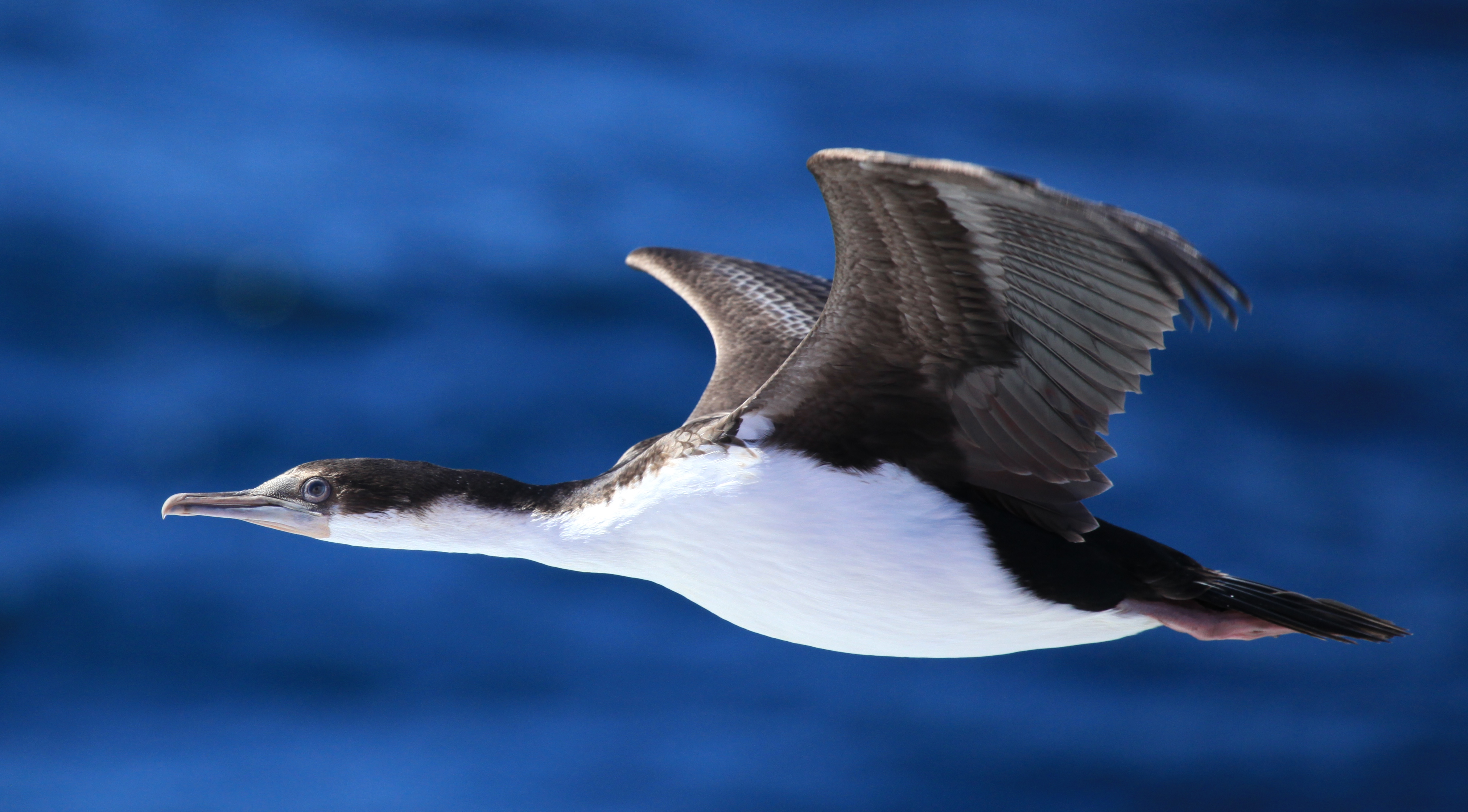 In the Beagle Channel at the tip of South America.